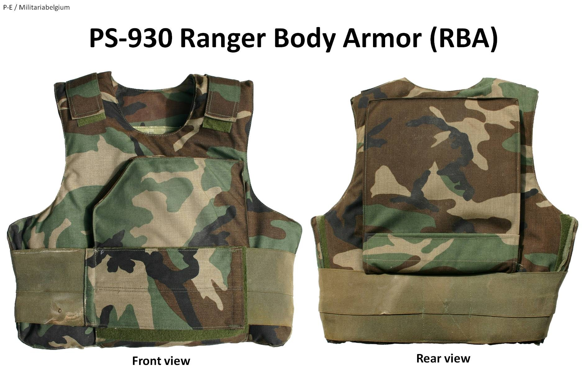 Ranger Body Armor (RBA) model PS-930 made by Protective Materials Company on October 2003.